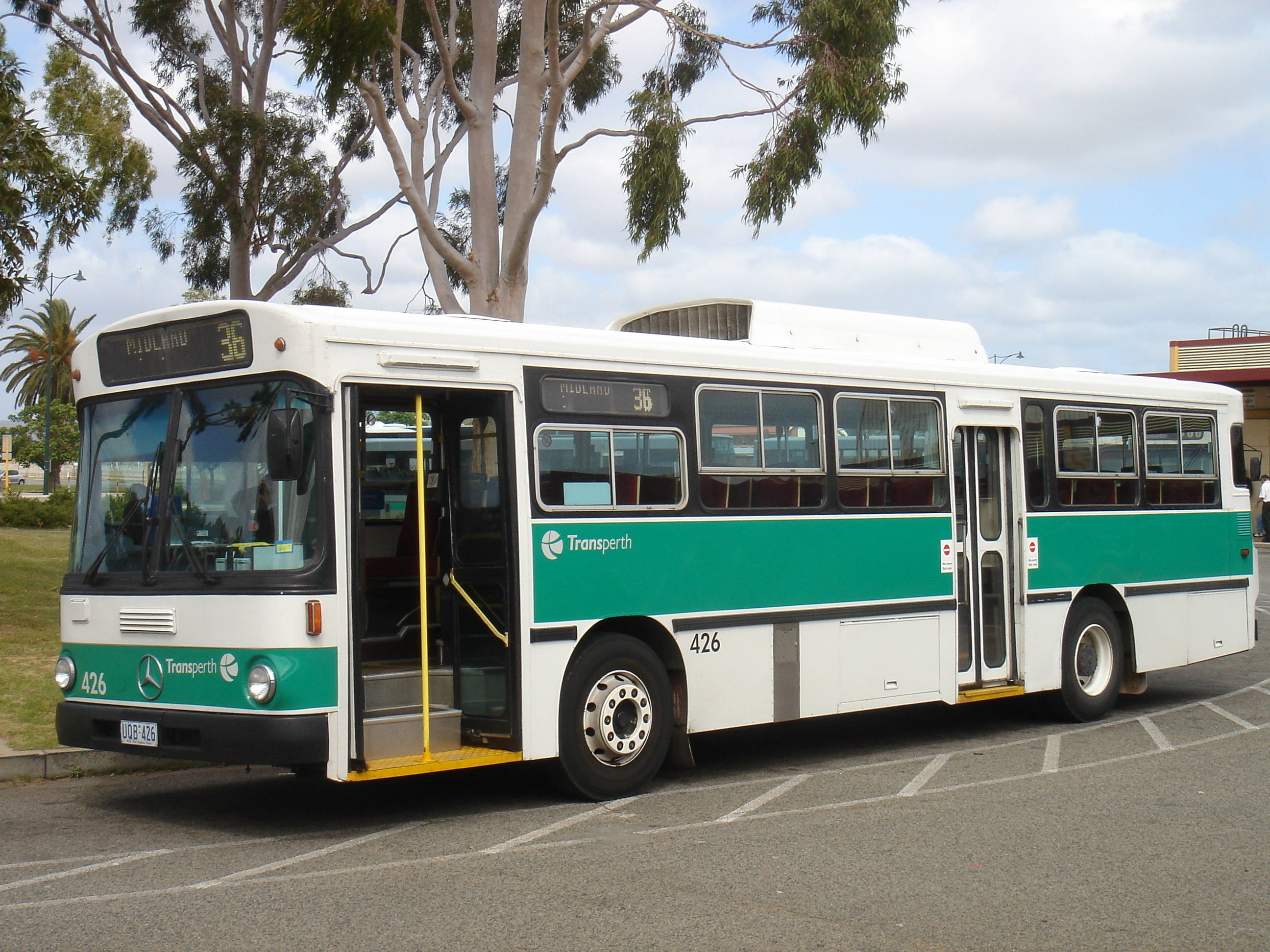 Transperth Mercedes Benz 0305(fleet number 426) at Midland, Perth. Built by JW Boltons in Kewdale body type B43D, operated by Path Transit and Swan Transit withdrawn from service in 1st October 2009.